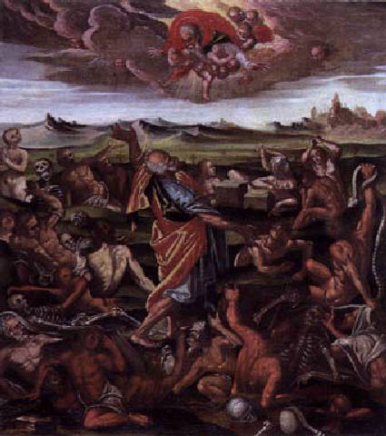 The resurrection vision